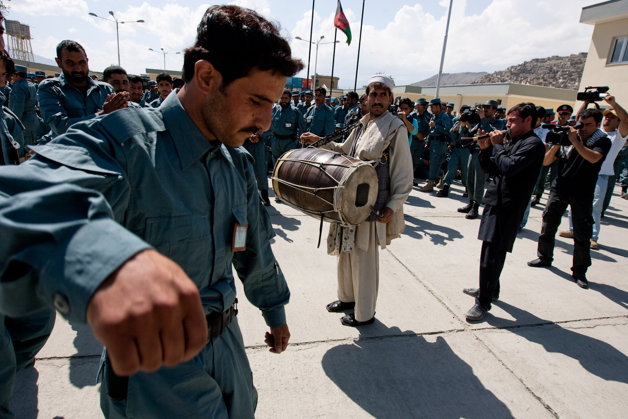 100509-N-6939M-005 Kabul, Afghanistan (May 9, 2010) Afghan National Civil Order Police (ANCOP) officers dance to traditional music during a ceremony held in their honor marking their return from a three month tour in Marjah. This ceremony marks regular rotations for ANCOP officers. Afghan National Civil Order Police is an elite force operating in Afghanistan with a mission to provide civil order presence patrols, prevent violent public incidents and provide crisis and anti-terror response in urban and metropolitan environments. (Photo by Mass Communications Specialist 1st Class Christopher Mobley/Released)